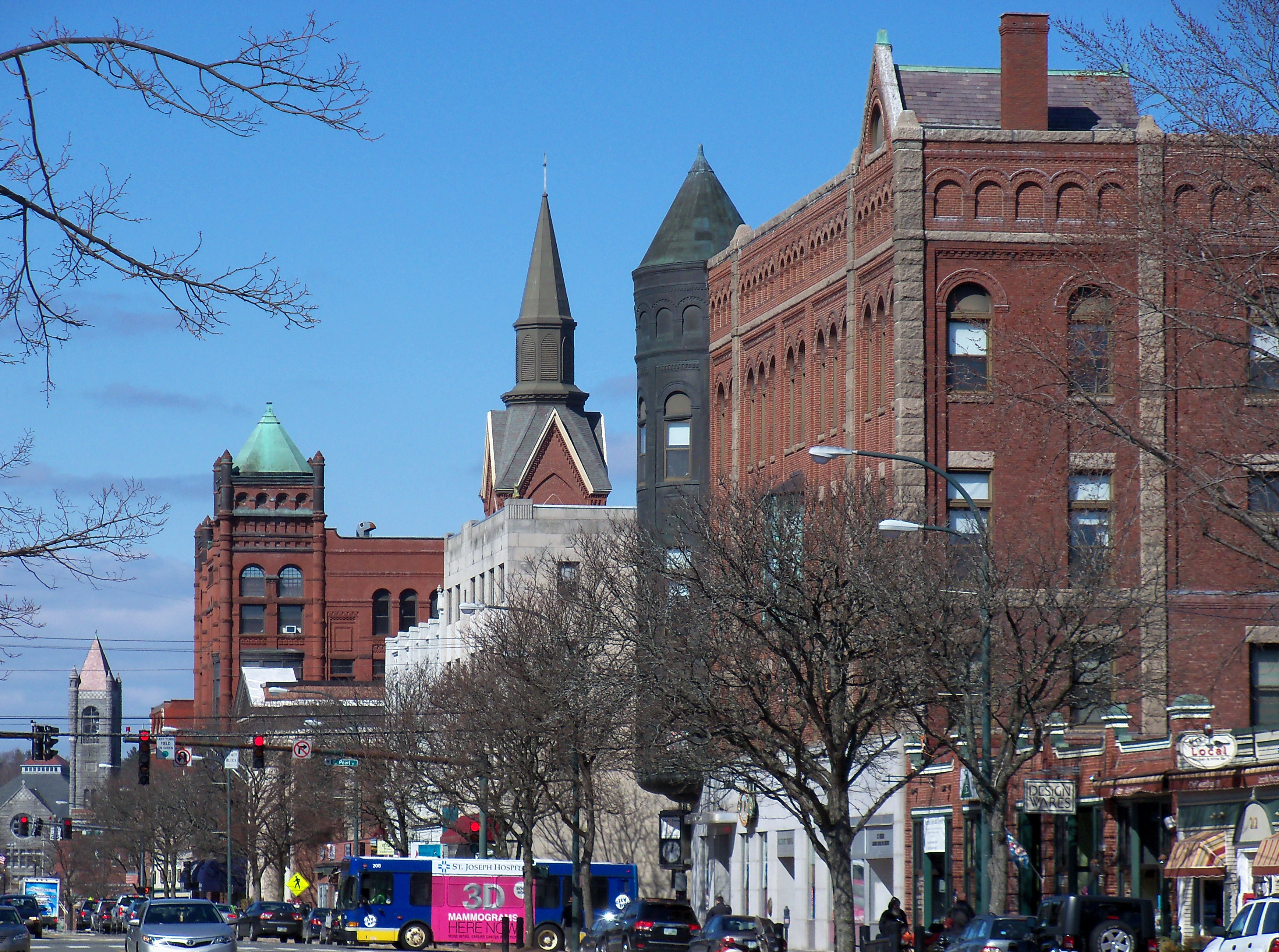 Main Street in Nashua, New Hampshire, USA.